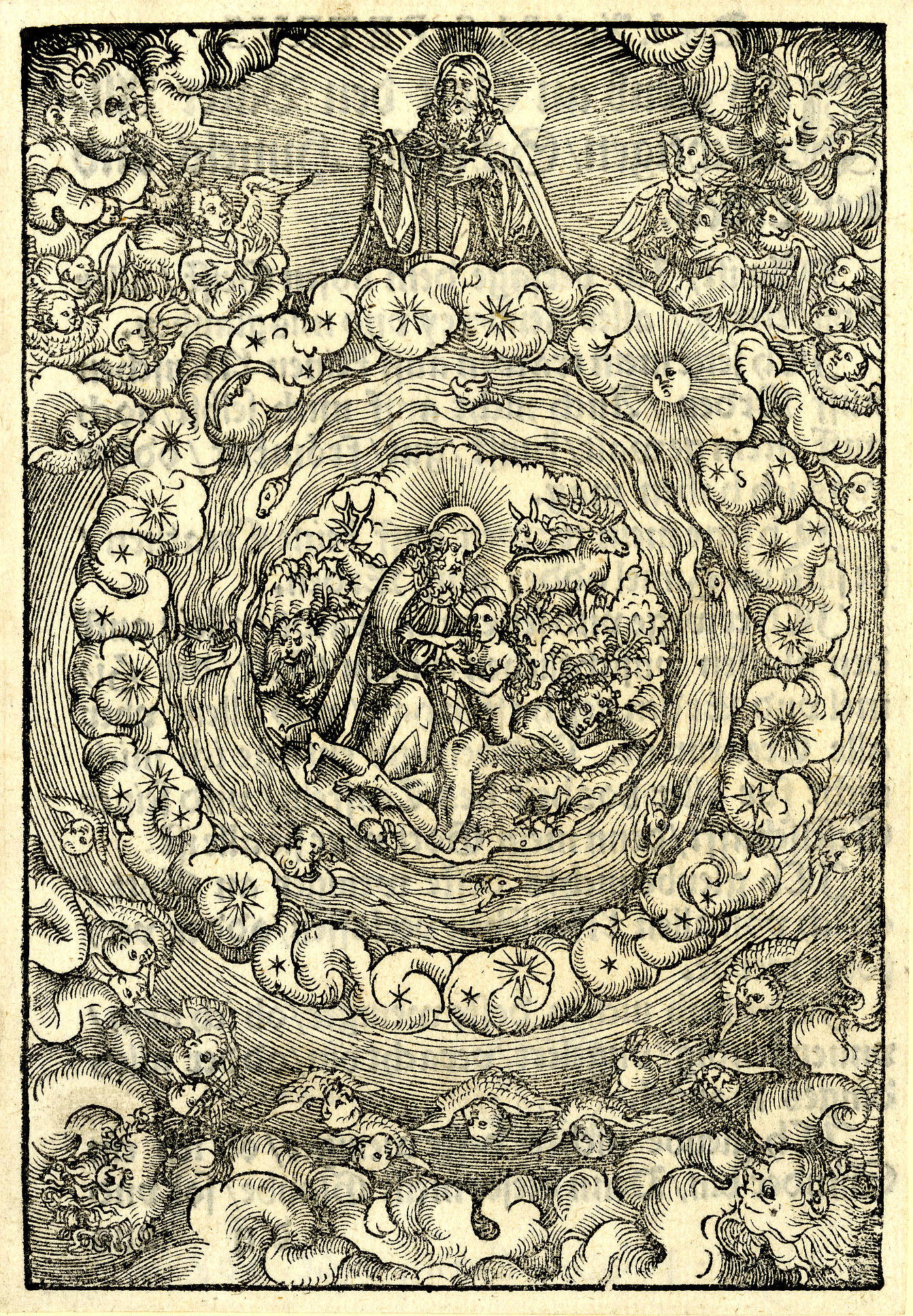 Woodcut of the Creation by Lucas Cranach the Elder illustrating a book on the Apostles by Martin Luther